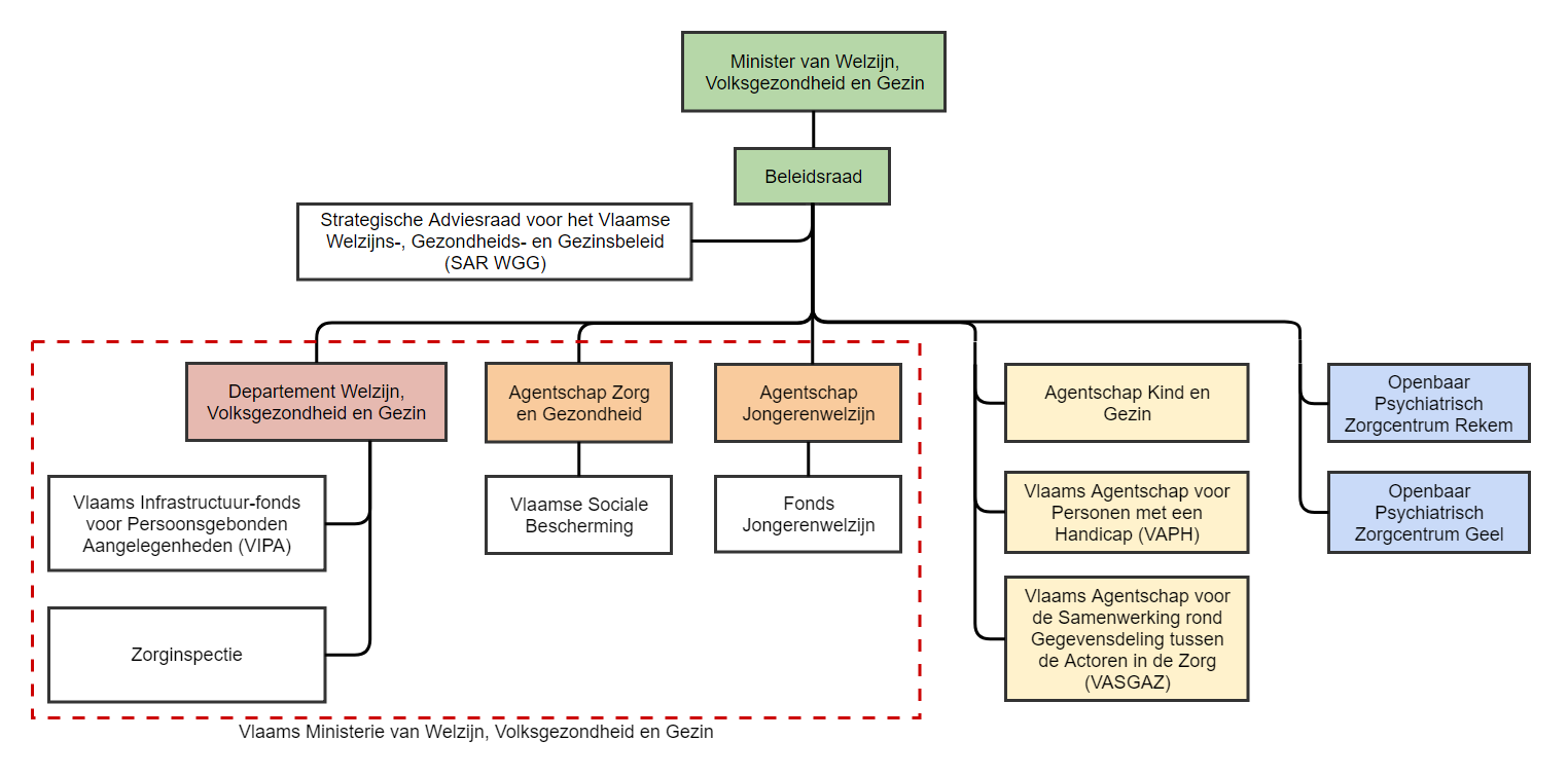 Structure of the Welfare, Public Health and Family policy area of the Flemish administration anno 2018